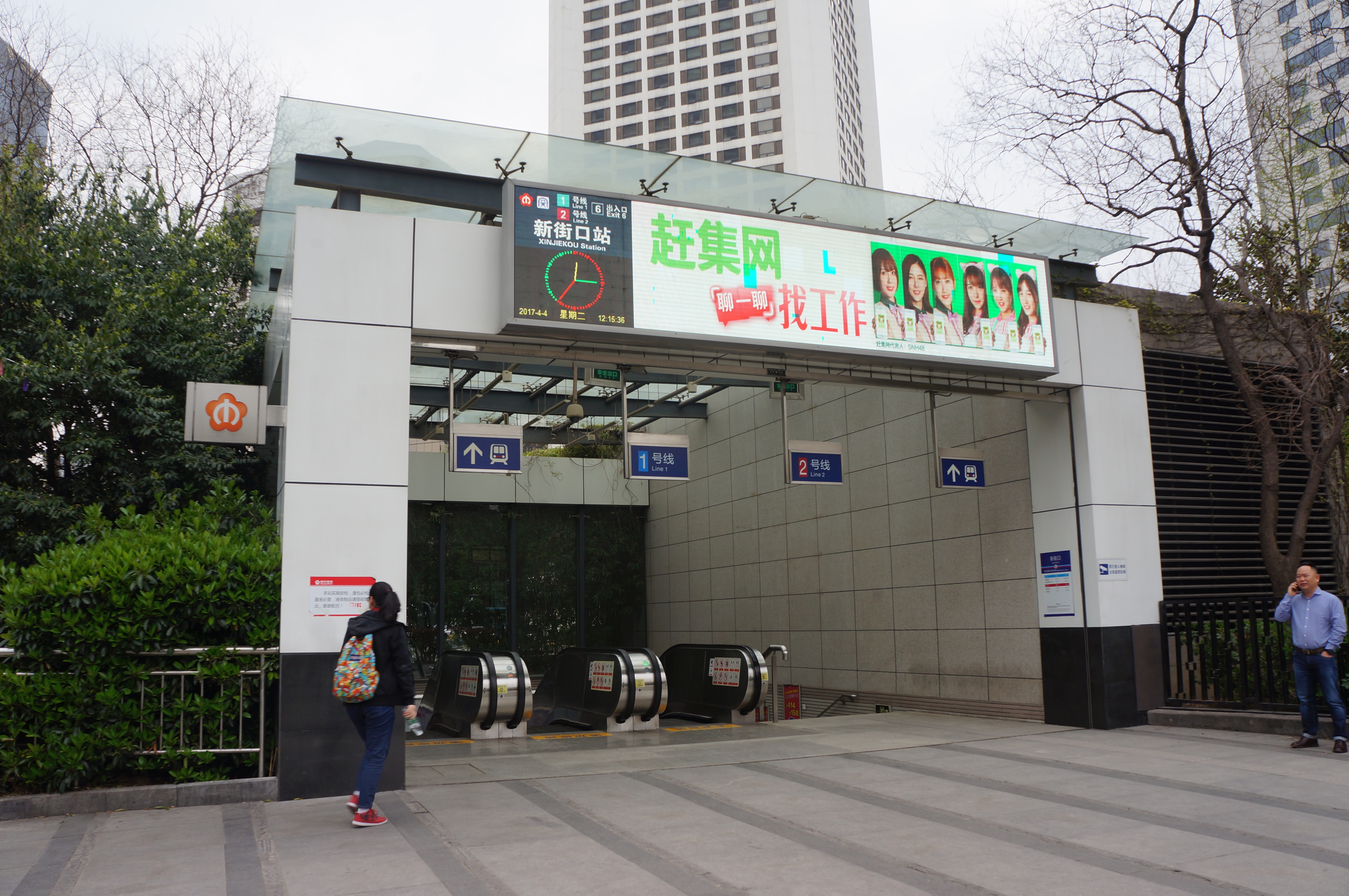 201704 Exit 6 of Xinjiekou Station